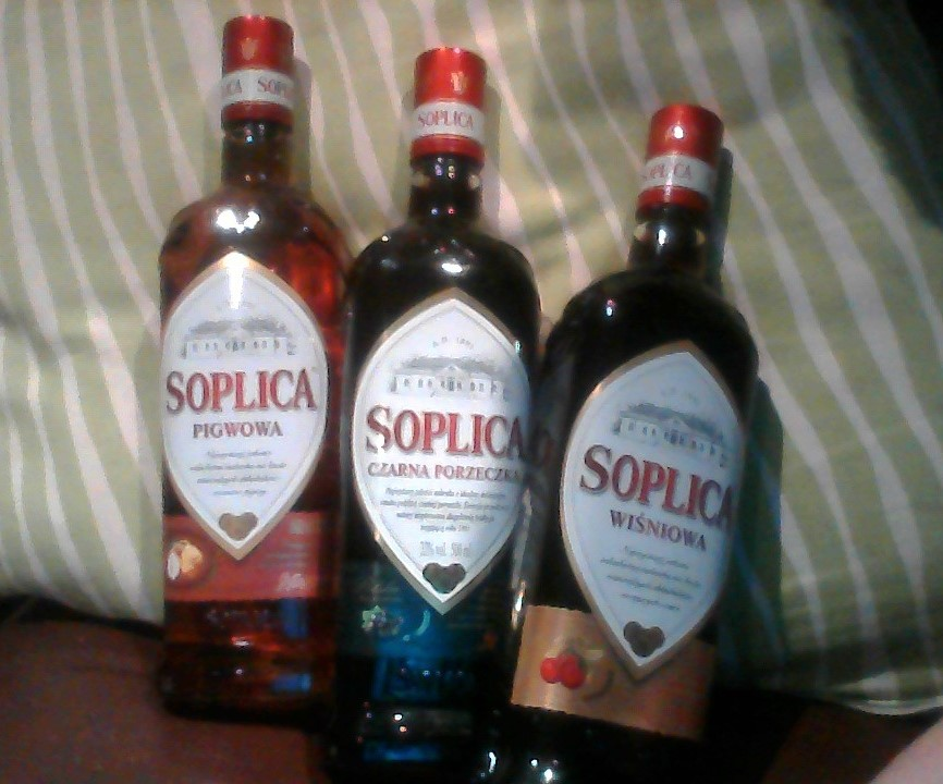 A selection of Soplica Vodkas